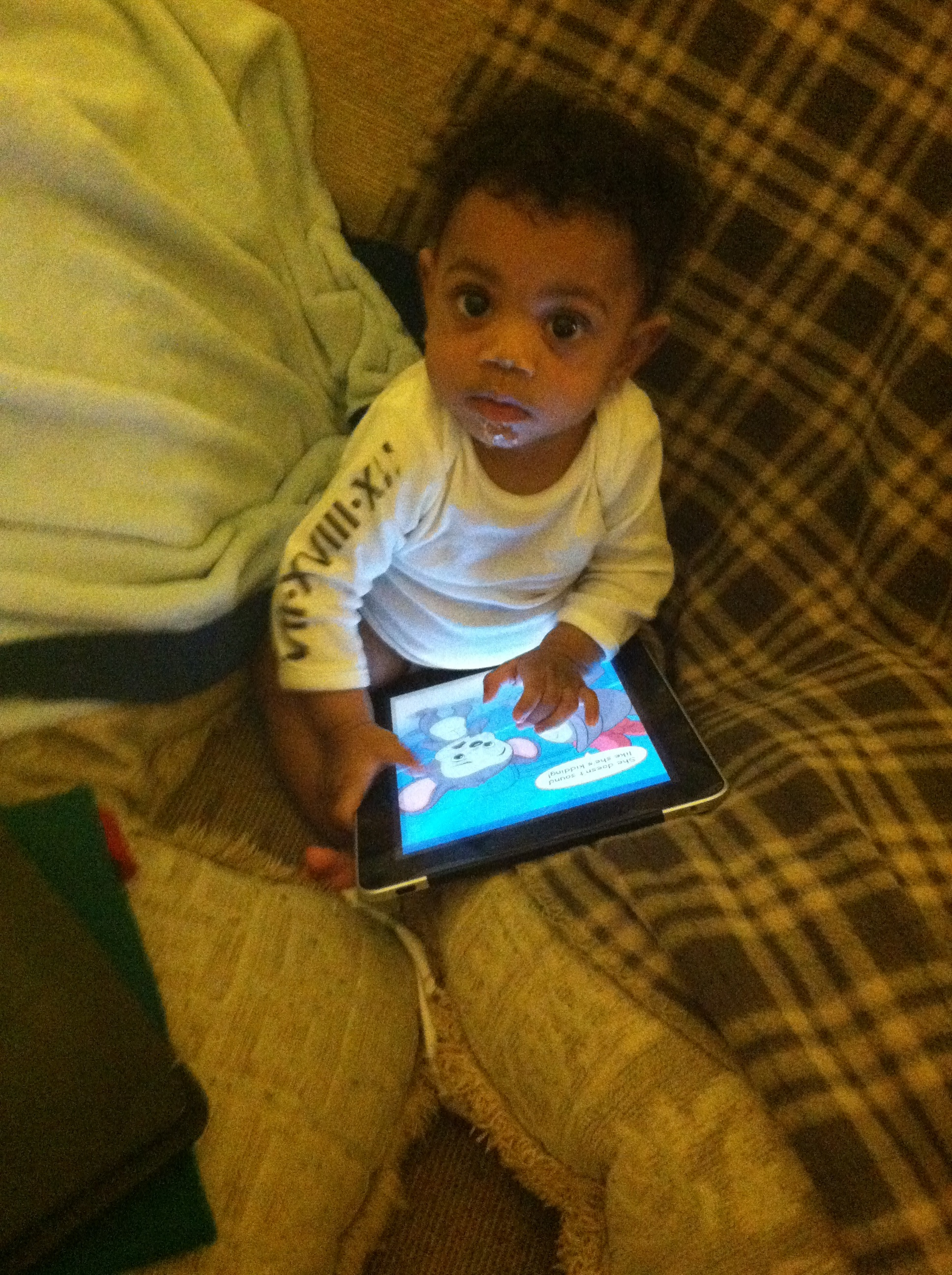 Fatty